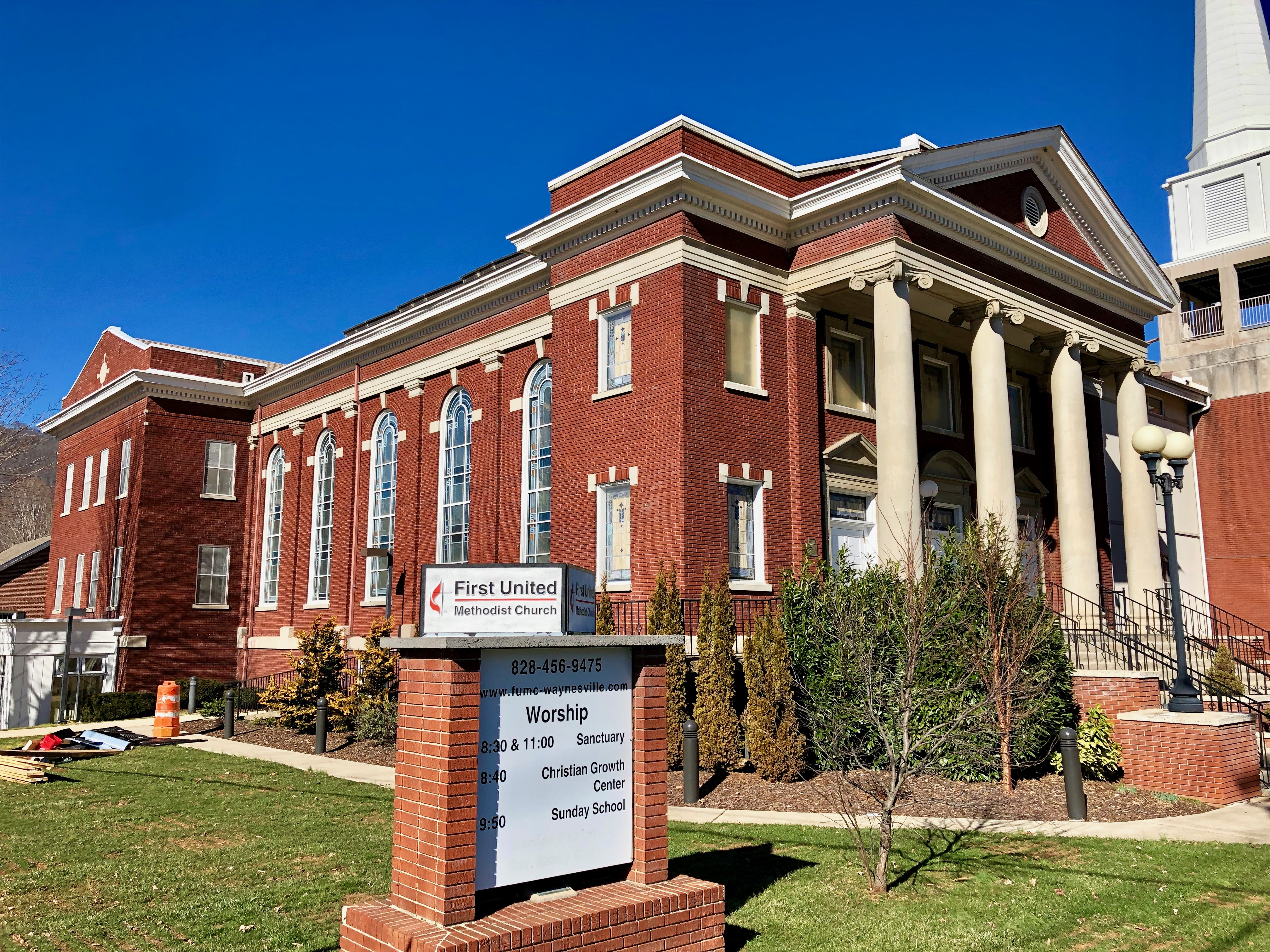 First United Methodist Church, Waynesville, NC